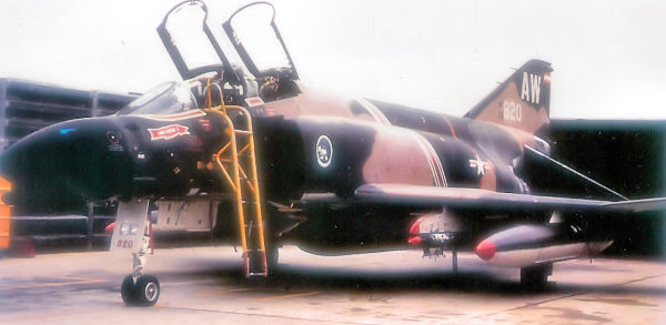 F-4C of the 389th Tactical Fighter Squadron - DaNang Air Base, South Vietnam.